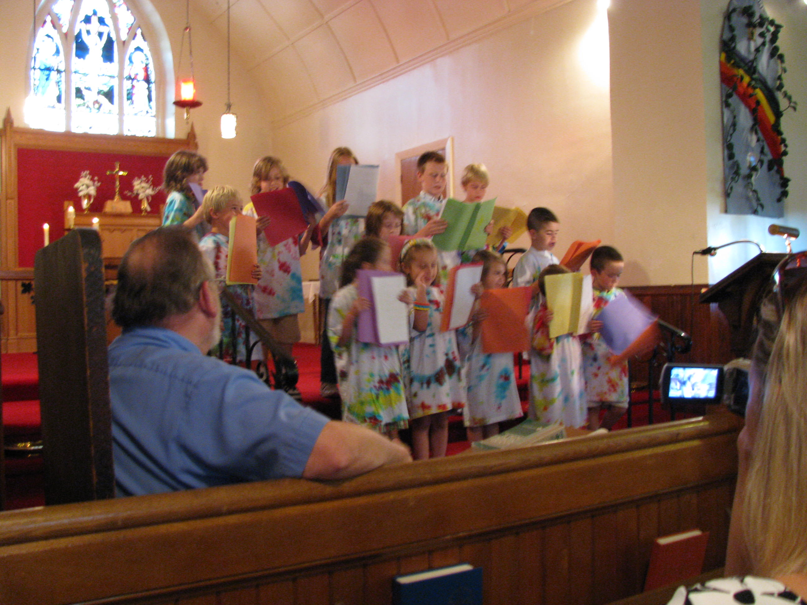 Campers performing at the closing service.